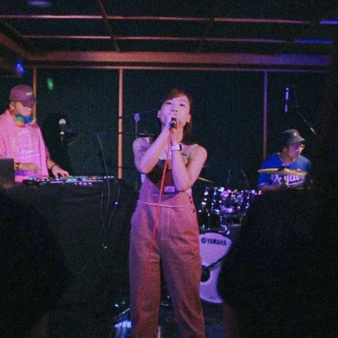 Luna Is A Bep Performing on Stage